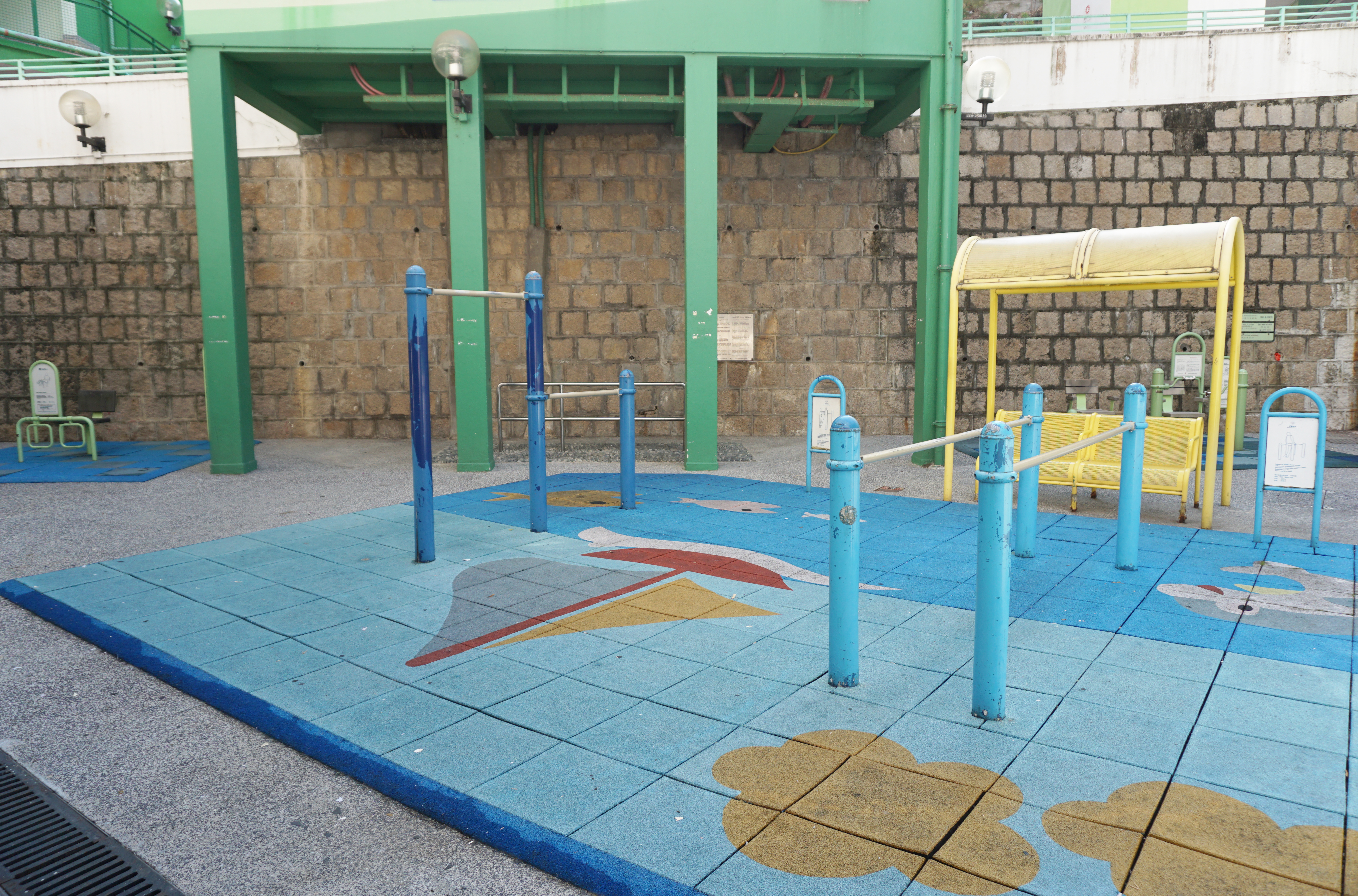 Sai Wan Estate in Kennedy Town, Hong Kong.